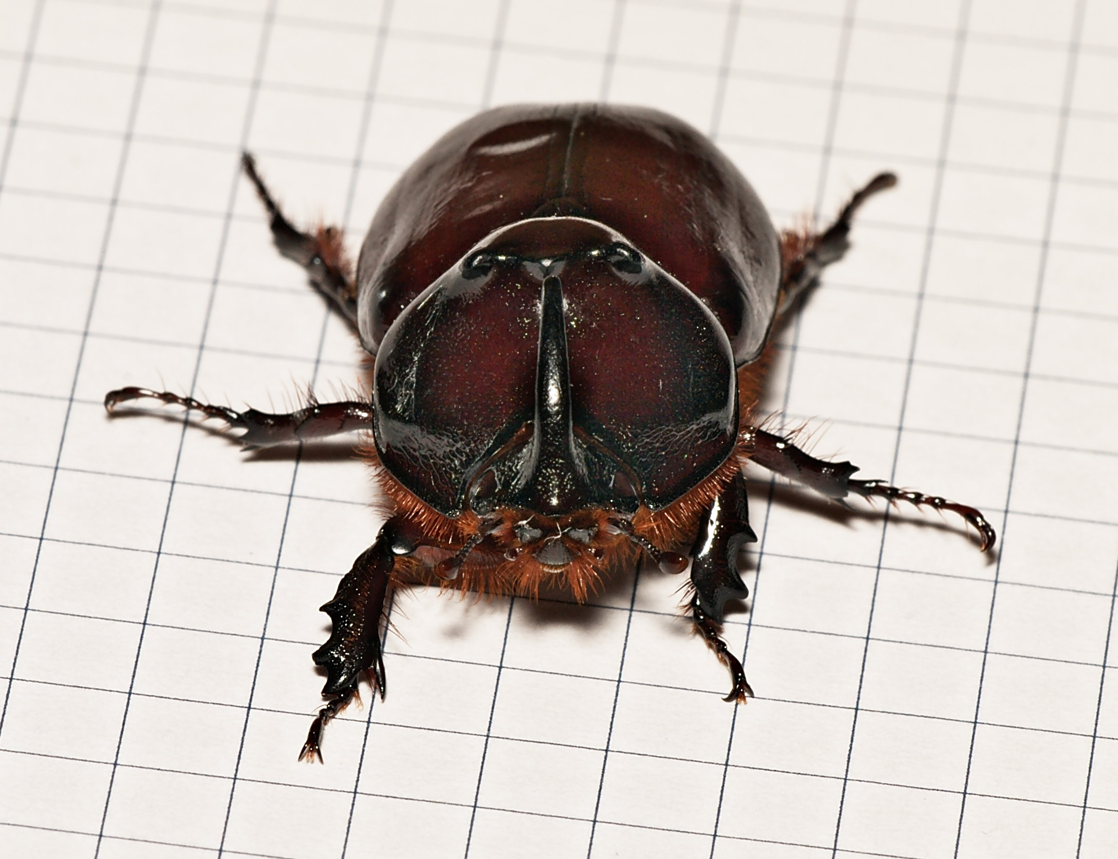 male Oryctes nasicornis from Cologne, Germany. Squares have a length of 5 mm.